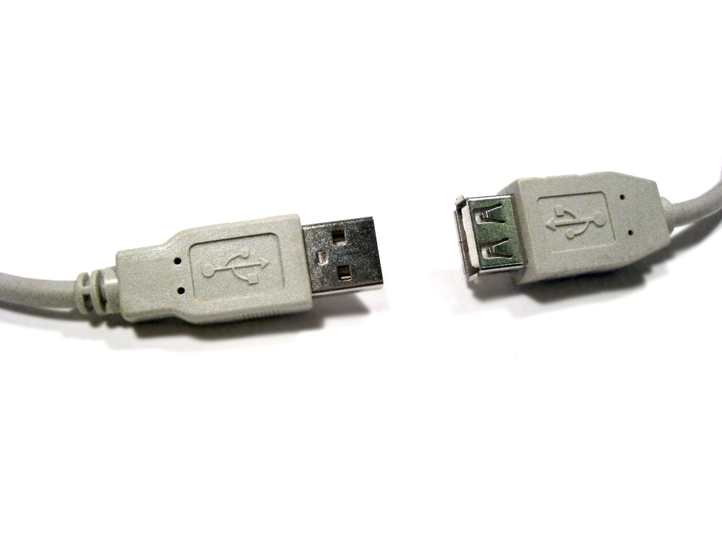 By Richard Wheeler (Zephyris) 2007.